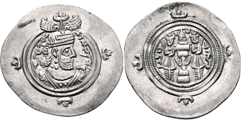 SASANIAN KINGS. Ohrmazd (Hormizd) V or VI. AD 631/2. AR Drachm (33mm, 4.13 g, 3h). WYHC (Veh-az-Amid-Kavād) mint. Dated RY 2 (AD 631/2). Crowned bust right / Fire altar with ribbons and attendants; star and crescent flanking flames. SC Tehran 4338-40. Near EF.